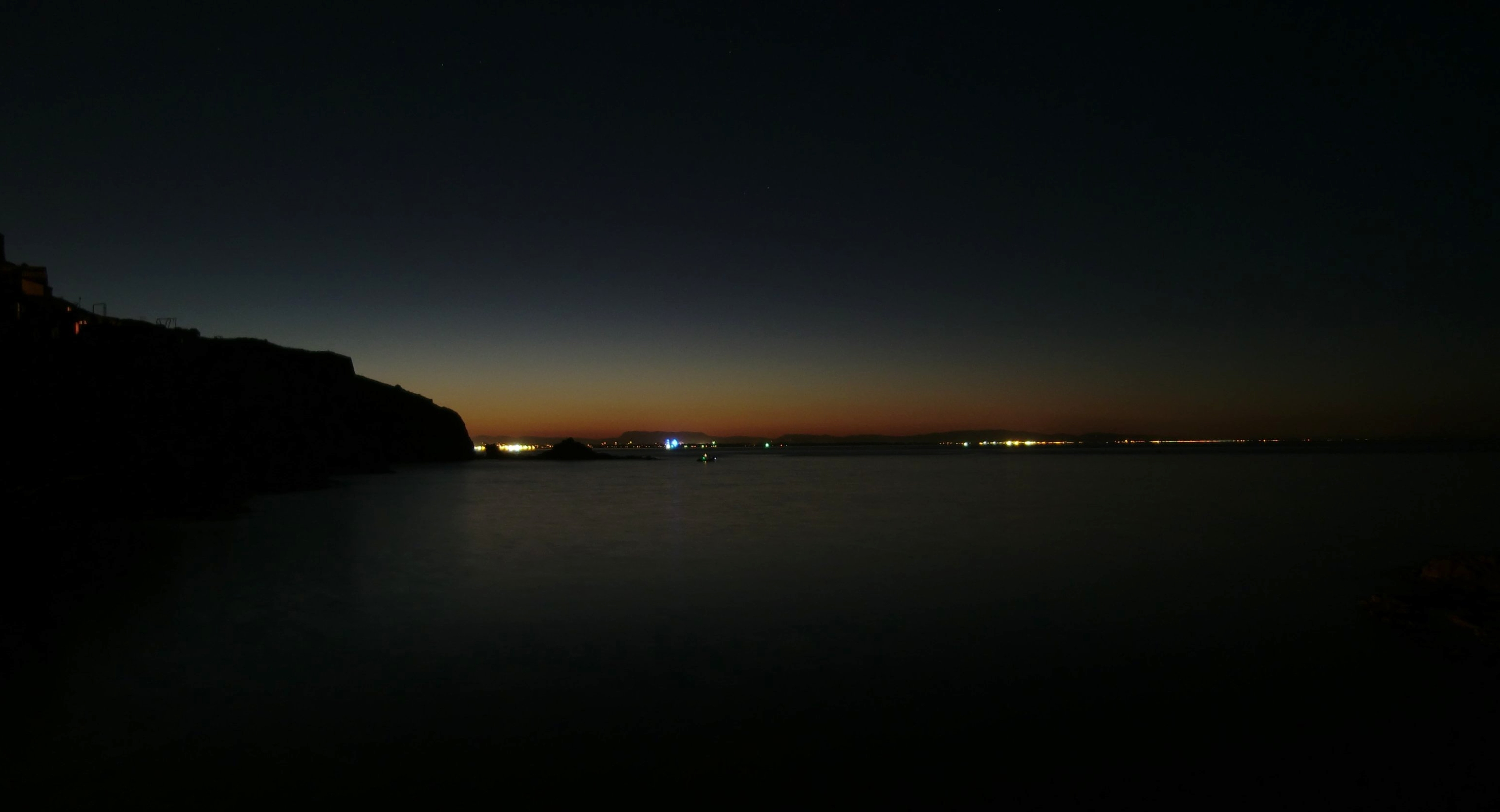 The southern tip of the Amethyst Coast in Southern France seen from Collioure by night.